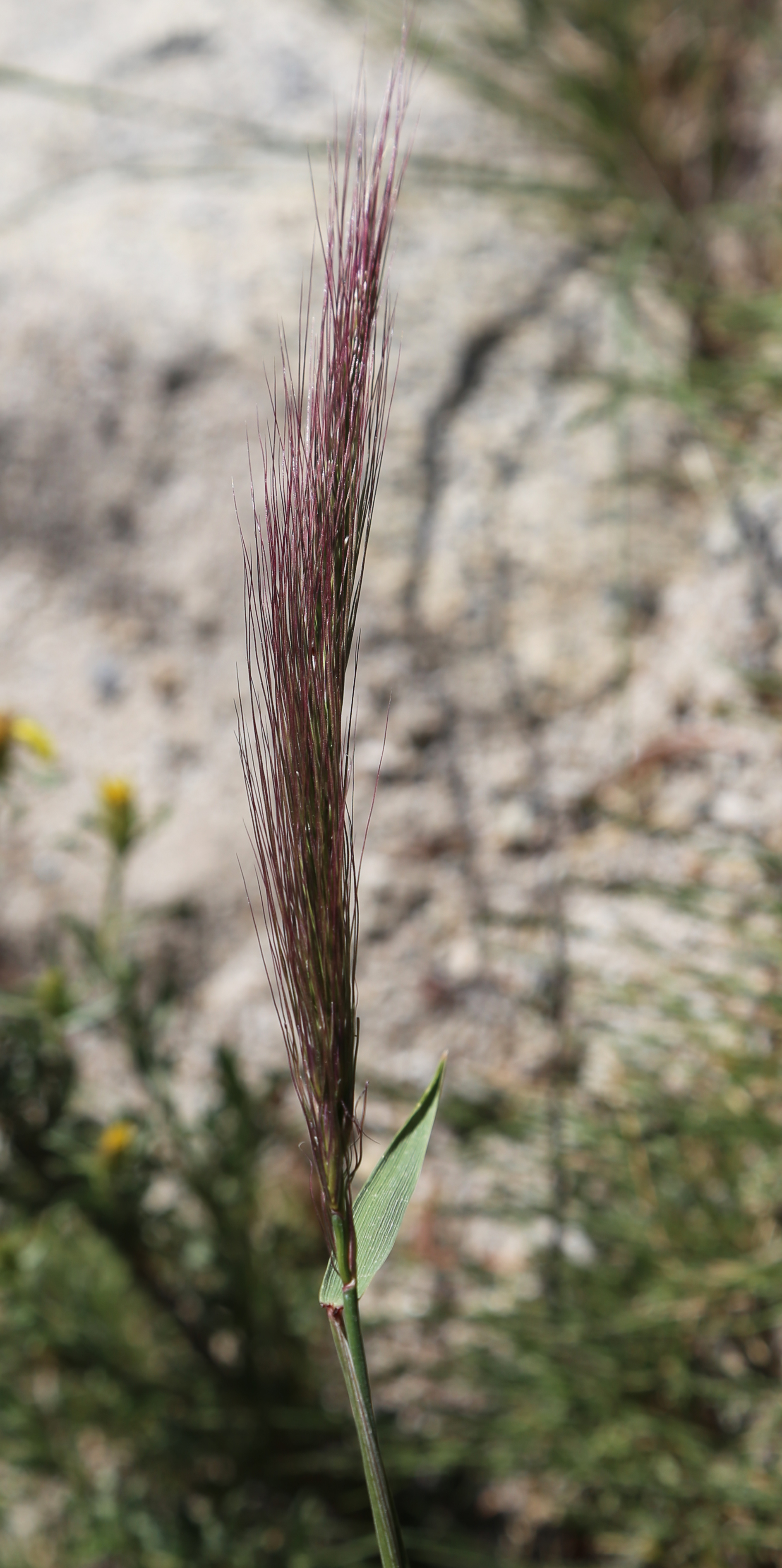 Squirrel-tail grass (Elymus elymoides) closeup of spike in tight, red, early-season form. Near trail into Little Lakes Valley, John Muir Wilderness, Sierra Nevada USA.